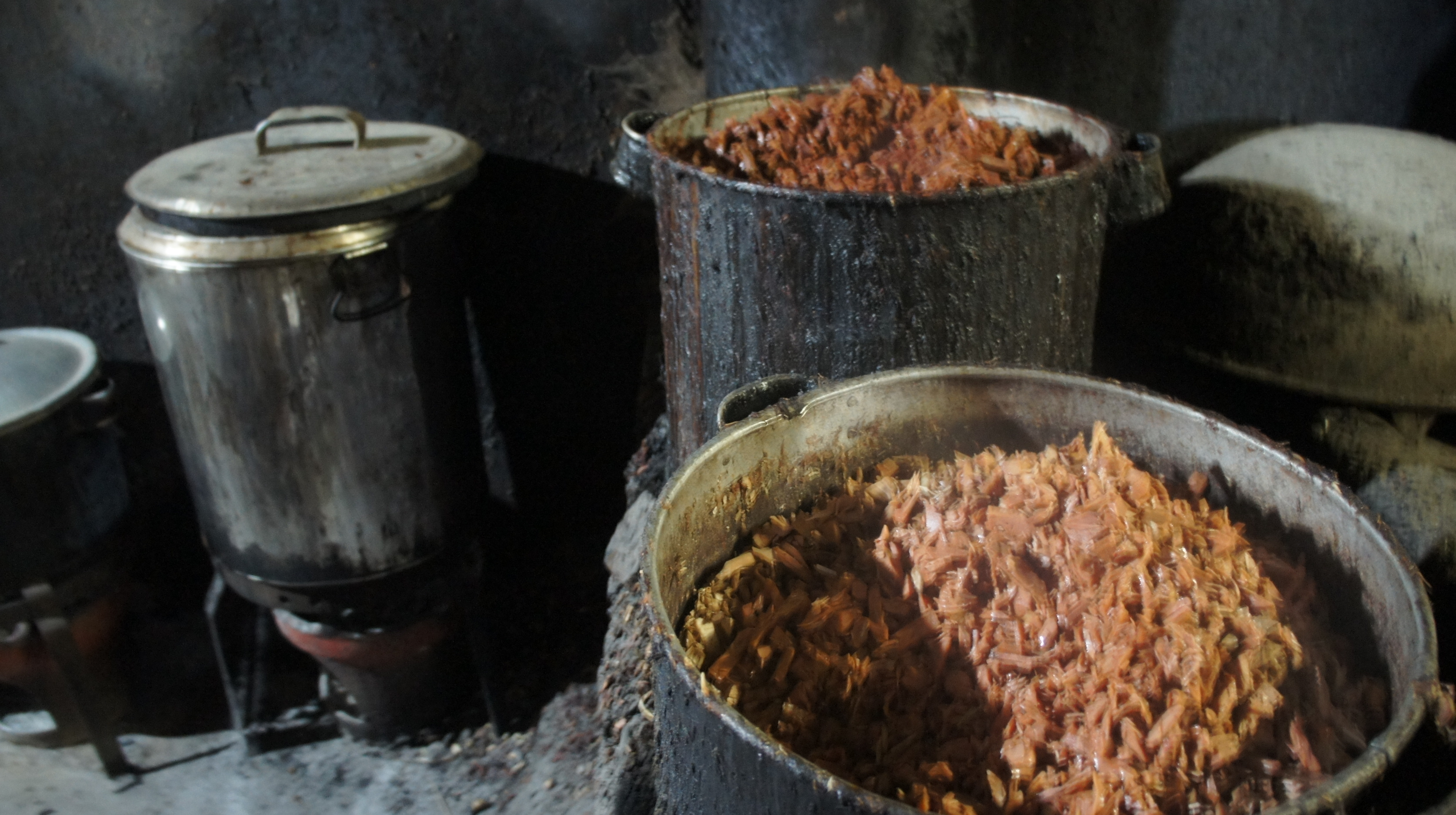 Cooking gudeg, Yogyakarta